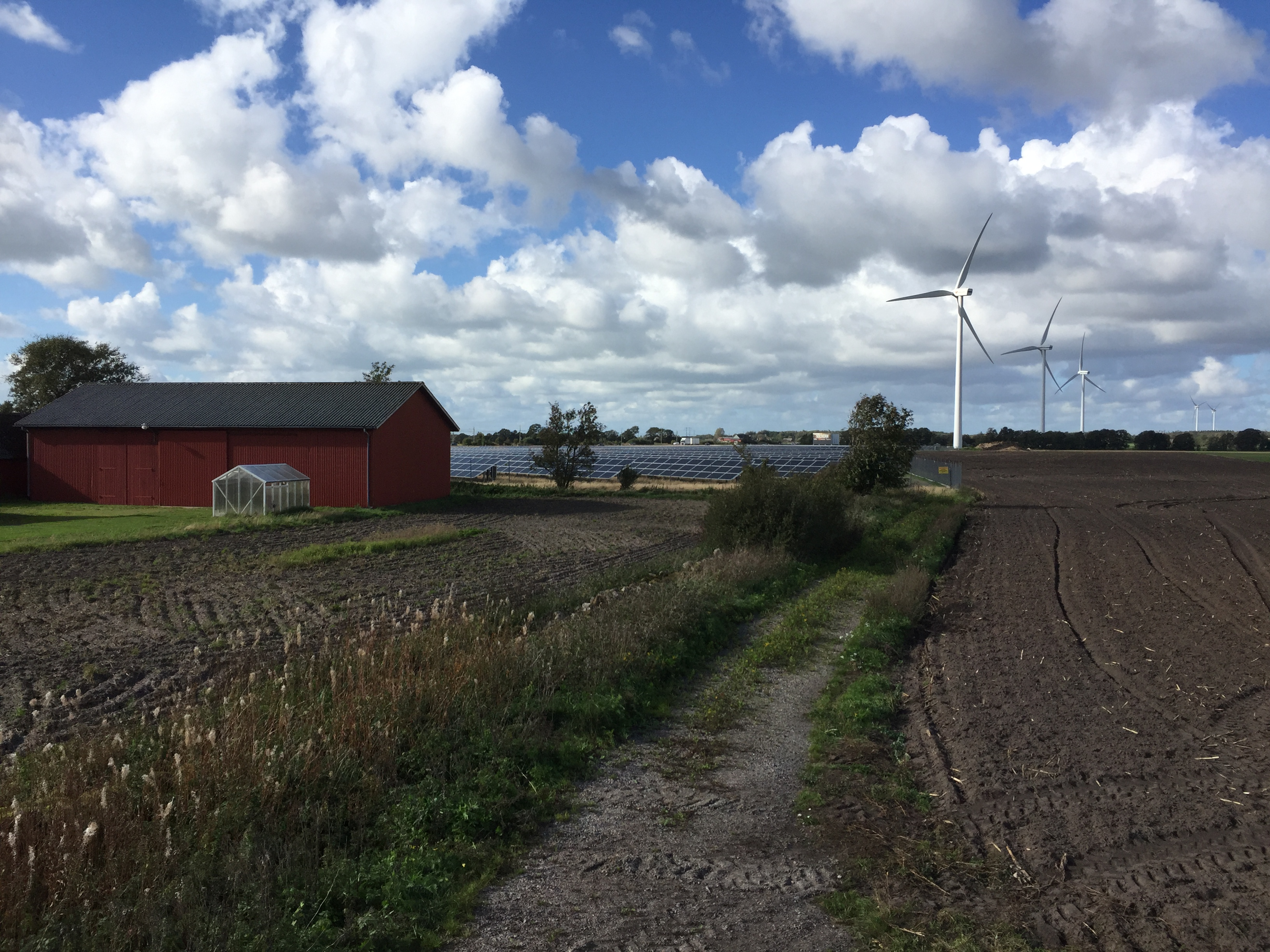 Solsidan ("The sunny side") - a PV (PhotoVoltaic) power plant in the western part of Sweden south from Varberg, 2.7 MWp, 2018-09-23